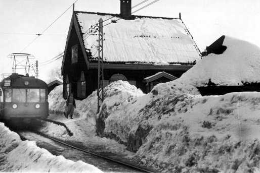 Photographer: Unknown Source: Oslo byarkiv: Year: 1951 Arkiv ID: A-40203/Uaa/0005/020